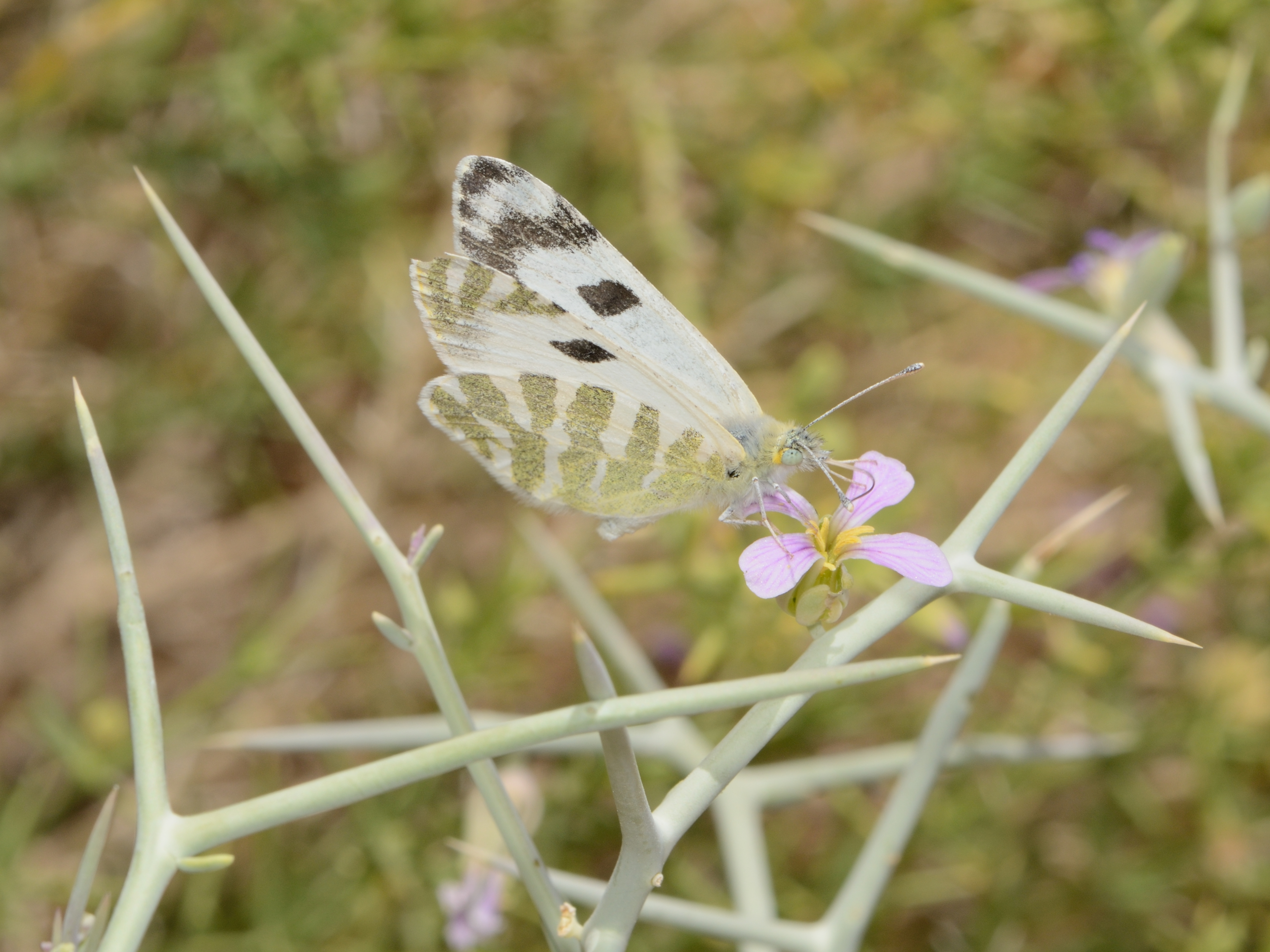 Euchloe falloui falloui Allard, 1867, female foraging on Zilla spinosa, Wadi 'Eteq, Eilat Mountains, Israel, March 20, 2013.